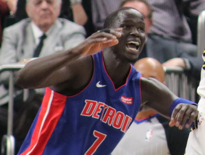 Luke Kennard of the Detroit Pistons goes up for a shot while Edmond Sumner of the Indiana Pacers and Thon Maker of the Detroit Pistons look on.